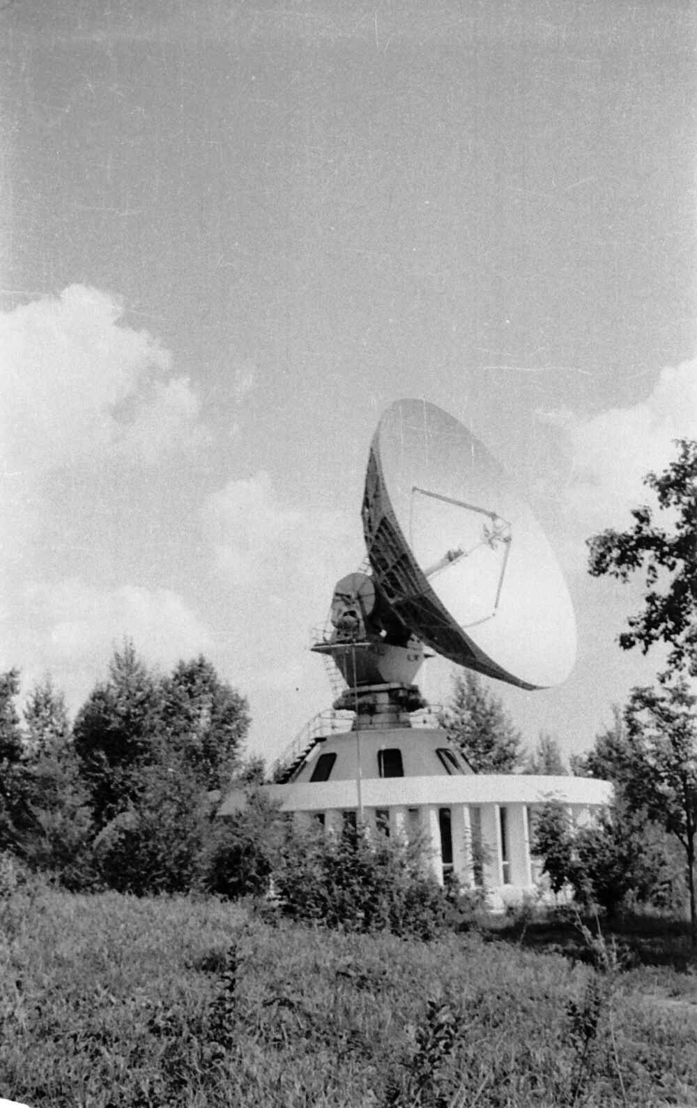 Buildings in Khabarovsk